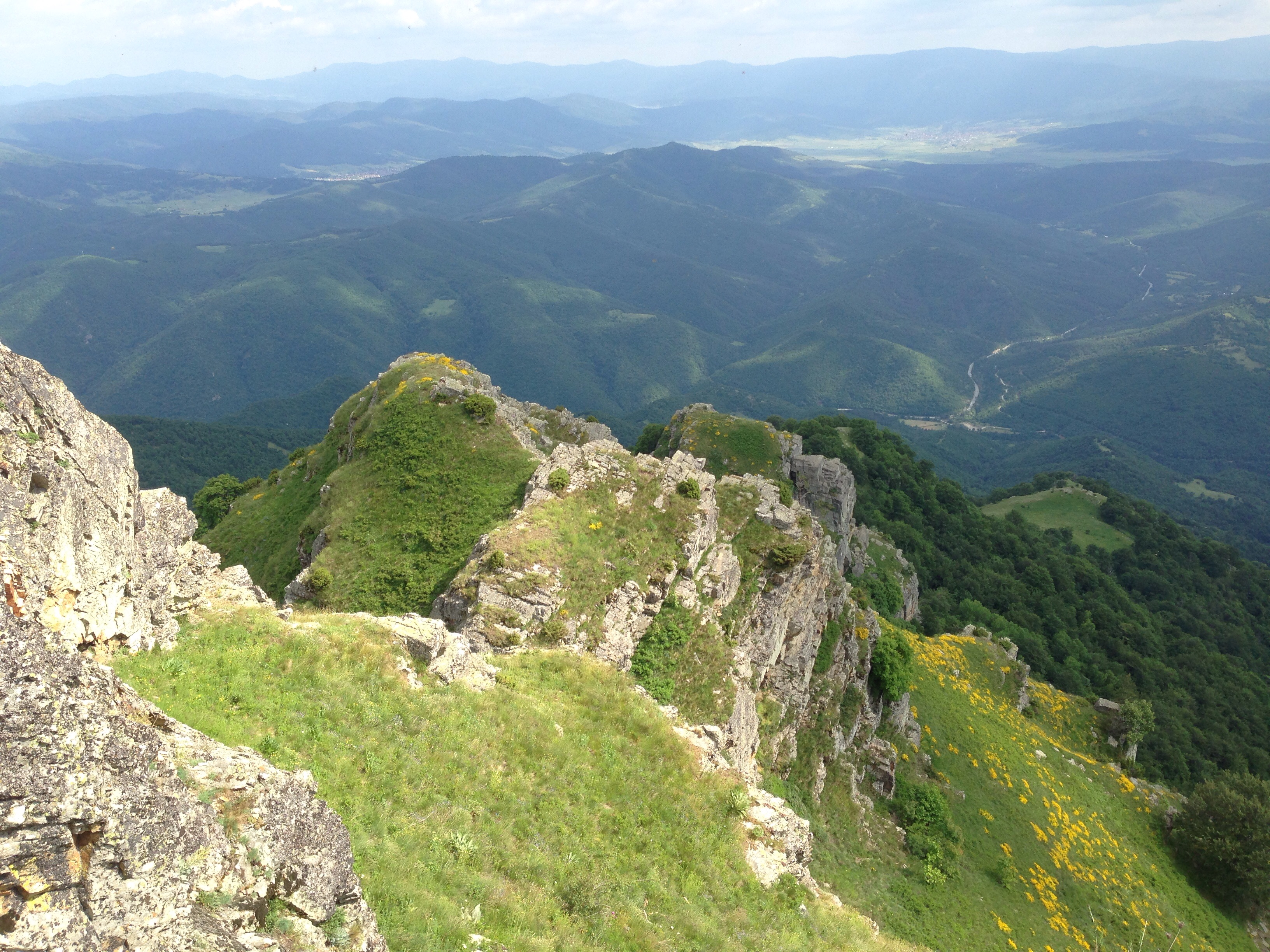 Milevi Skali Protected Area in Pazardzhik Province